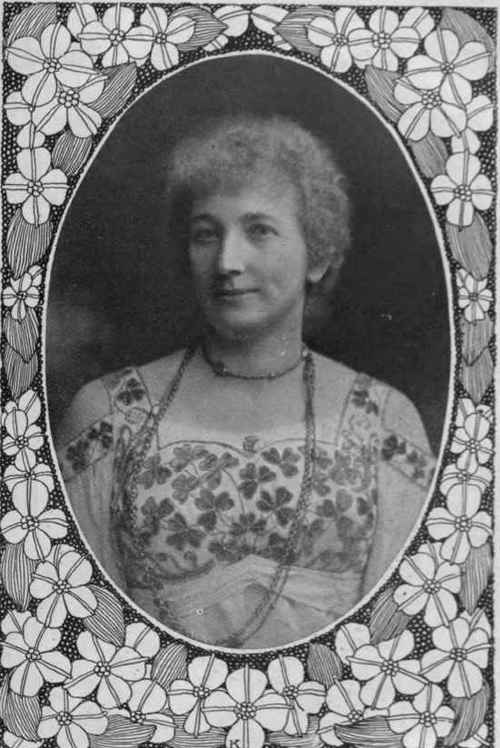 Alicia Adelaide Needham